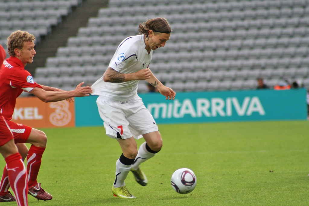 Mikhail Sivakov